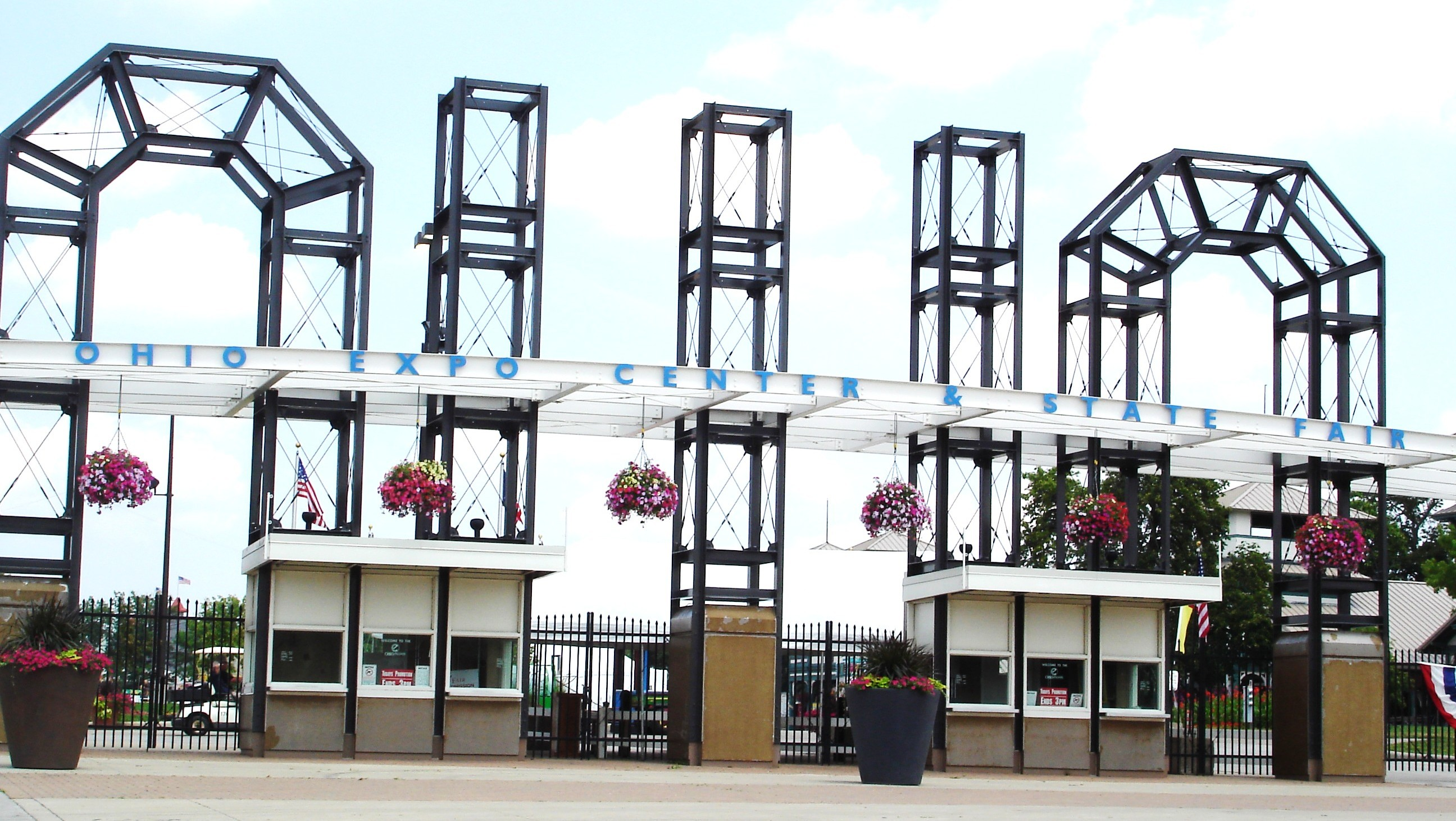 Entrance to the Ohio State Fair and Expo in Columbus